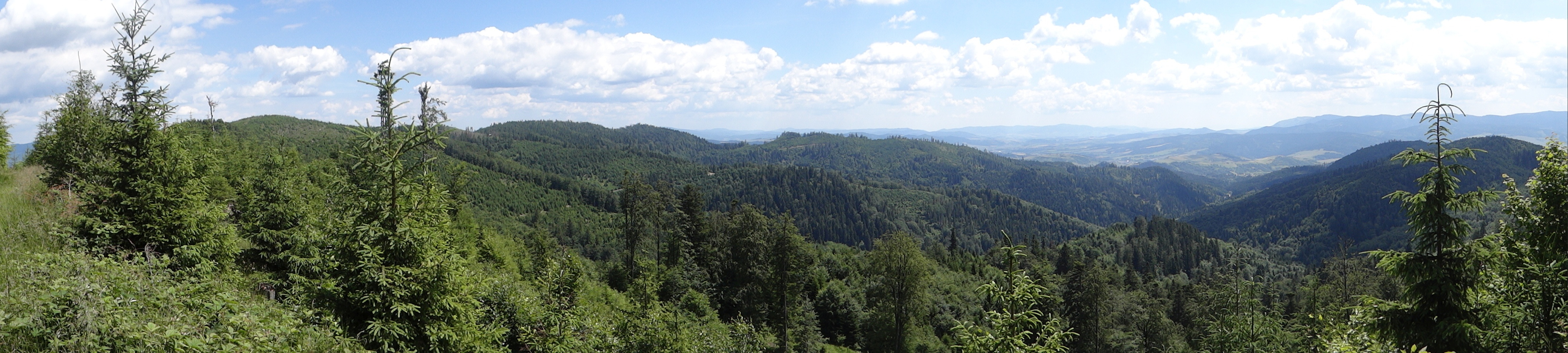 View from Plontana